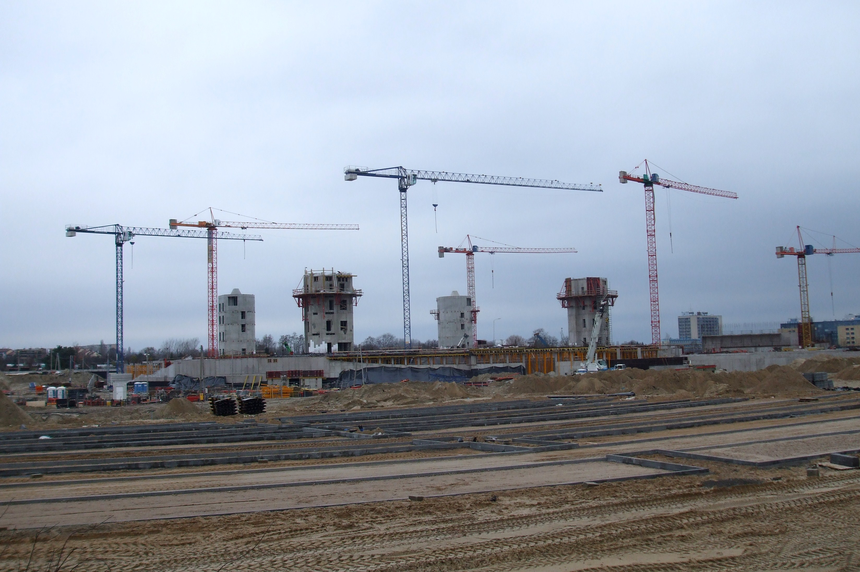 Hala "Gdańsk Sopot" under construction, November 2007. Camera: Fujifilm FinePix A820 License on Flickr (2011-01-26): CC-BY-2.0 Flickr tags: crane, building site, arena, hala sportowa, sopot, gdańsk, geo:lon=18.57698, geo:lat=54.424773